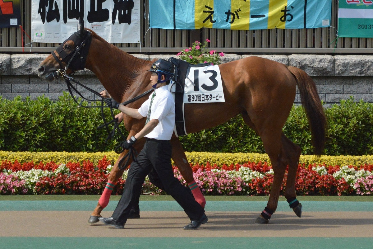 Japanese race horse Meiner Ho O at Tokyo racecourse. Tokyo (JPN) 26 May 2013 Tokyo Yushun (Japanese Derby) (Grade 1) (3yo Colts & Fillies) (Turf) 1m4f Firm RankHorse NameOddsAgeWgtTrainerJockey1stKizuna (JPN)19/10FC39-0Shozo SasakiYutaka Take2ndEpiphaneia (JPN)51/10C39-0Katsuhiko SumiiYuichi Fukunaga3rdApollo Sonic (USA)61/1C39-0Masahiro HoriiMasaki Katsuura4th - 14th/omission15thMeiner Ho O (JPN)36/1C39-0Yoshihiro HatakeyamaDaichi Shibata